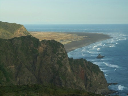 Whatipu beach and Panatahi Island are visible beyond the cliffs north of Karekare, in the Waitakere Ranges, New Zealand. Photo taken and uploaded by Paul Moss, Photographer, Artist, Paul Moss Photographer Artist NZ